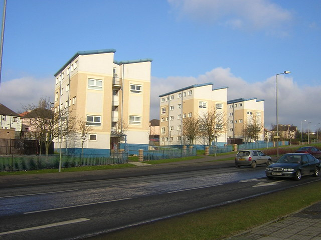 Blocks of Flats, Cleekhimin.